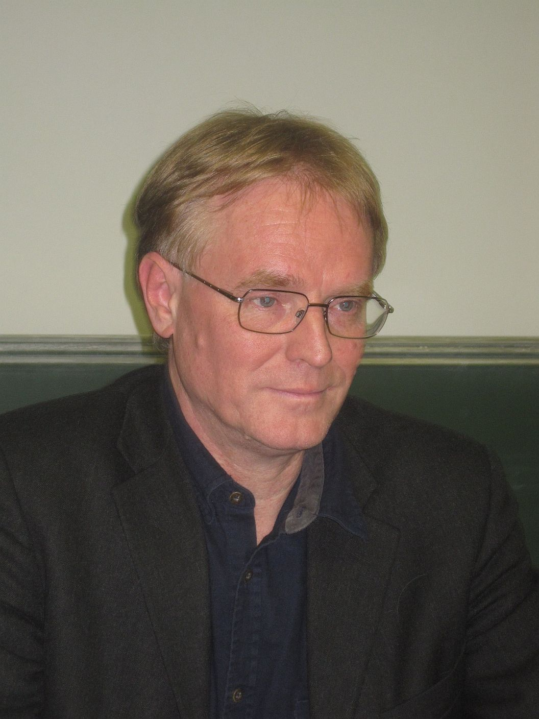 Physicist Jürgen Scheffran, Hamburg University